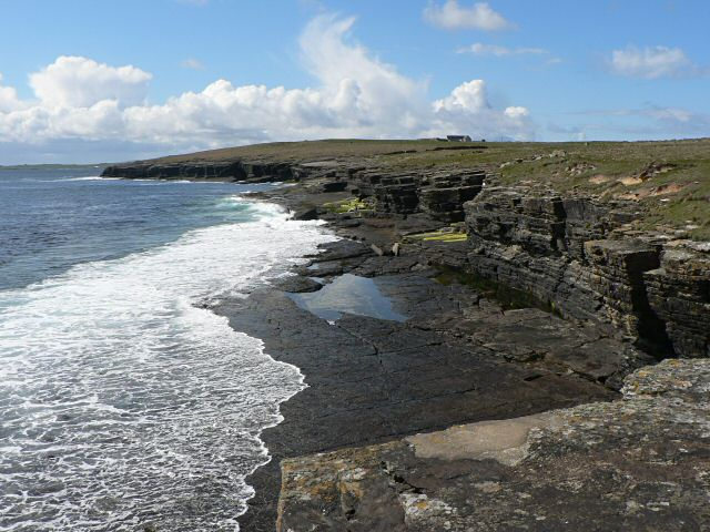 Papa Westray coastline. The rock forms a flat shelf at this point on the coast, and the waves were sweeping across it.